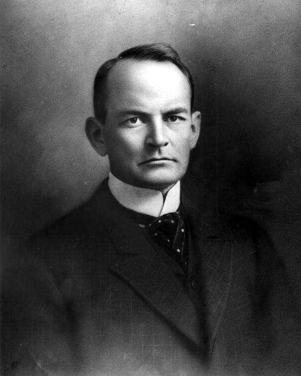 Portrait of Supreme Court Justice Evelyn C. Maxwell of Escambia County - Tallahassee, Florida.